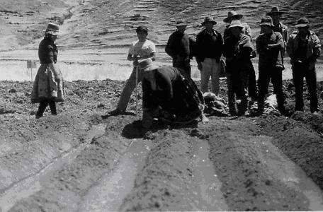 Women in the Andes near Cuzco are good irrigators